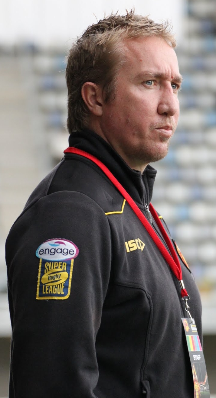 Trent Robinson as Catalans Dragons head coach, at the Stade Yves-du-Manoir in Montpellier